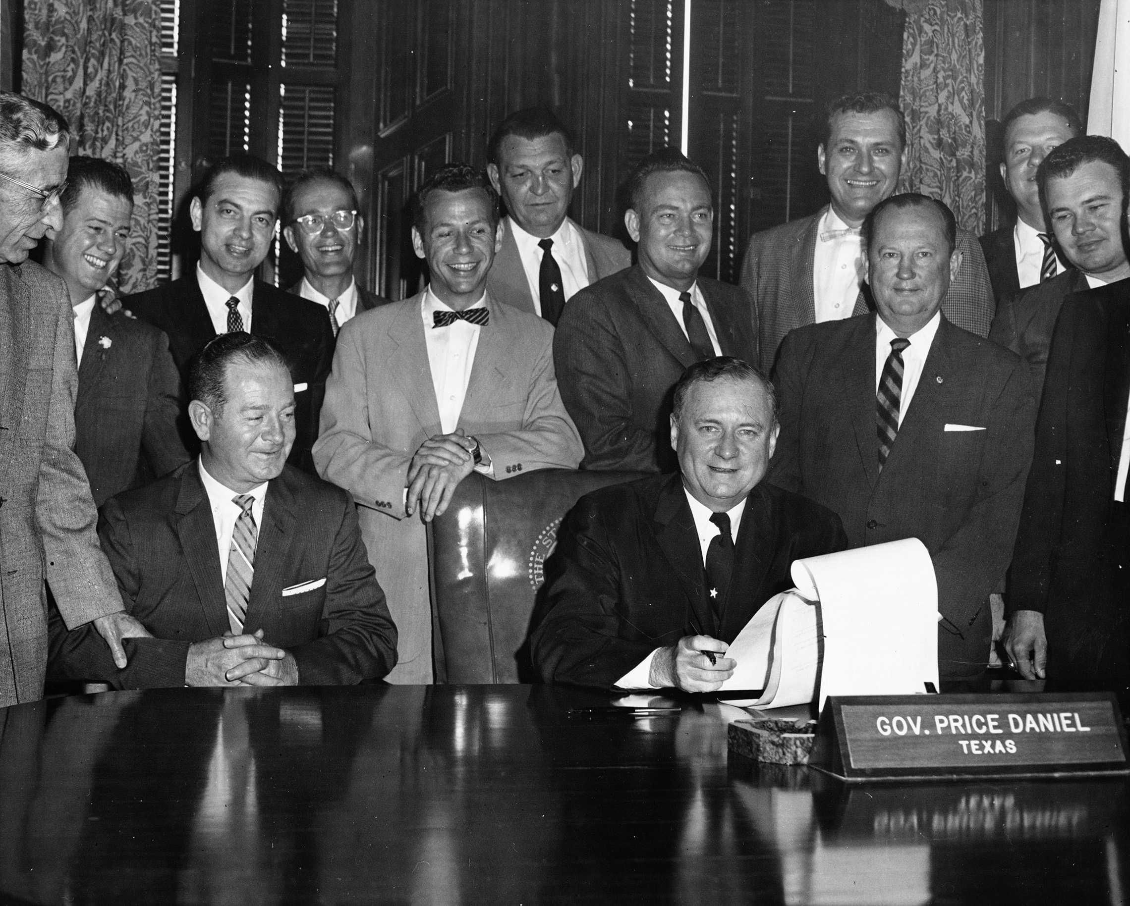 Texas Governor Price Daniel (seated) signing bill making Arlington State College a four-year college; Arlington Mayor Tom Vandergriff 3rd from left in back, State Senator Don Kennard, far right.